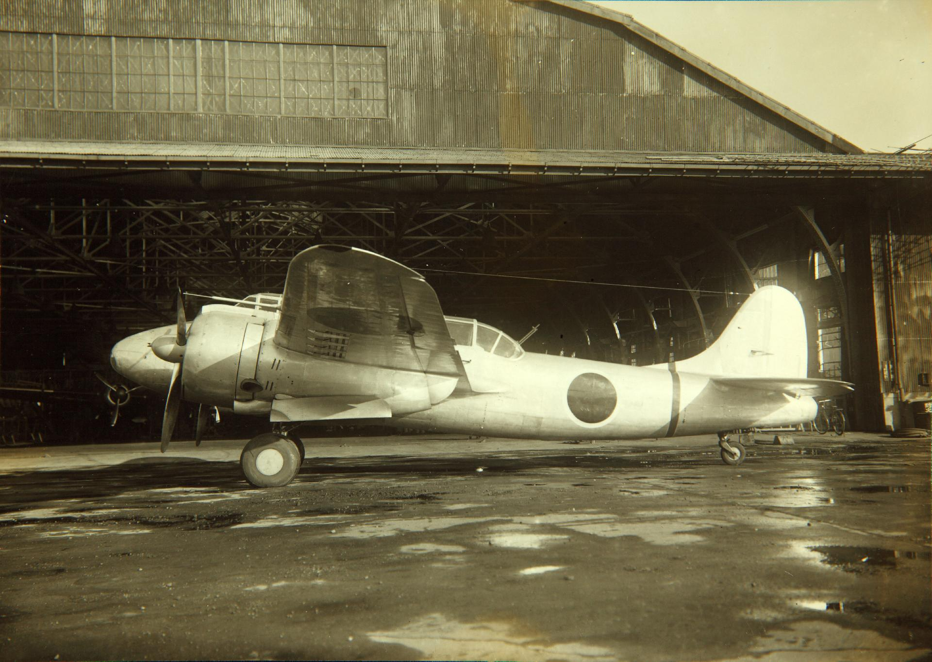 Kawasaki, Ki-66